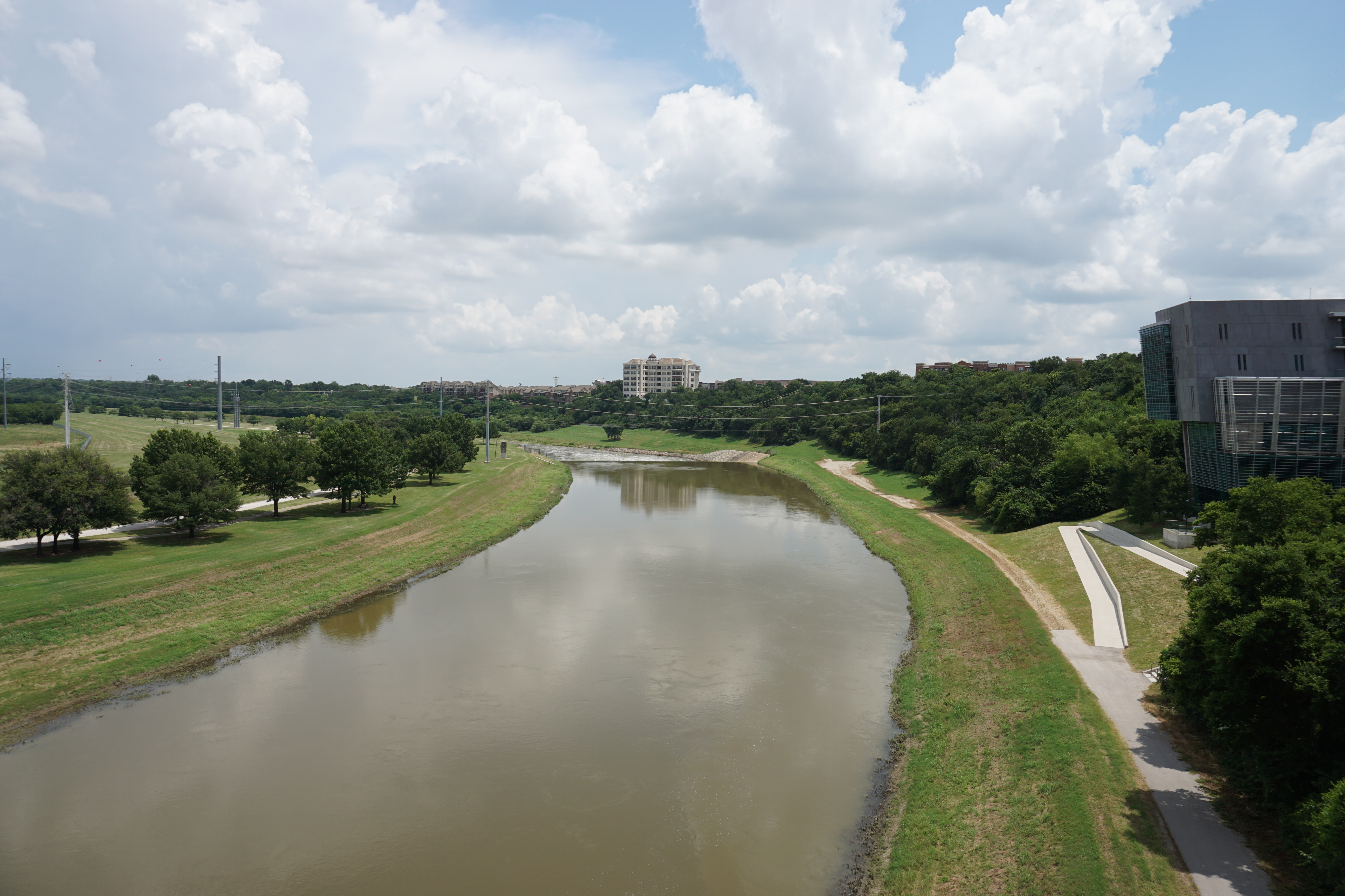 The Trinity River in Fort Worth, Texas (United States).